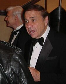 Richard M. Sherman at the 2002 Annie Awards receiving the Winsor McCay award.